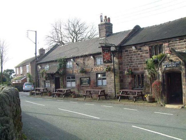 The Stafford Arms Public House, Bagnall At The Green, Bagnall